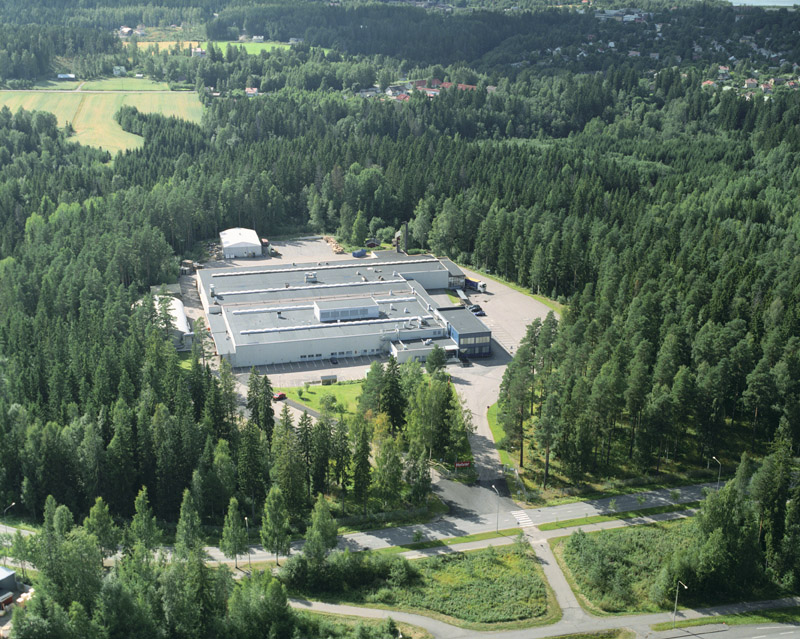 Helvar Main office and magnetic ballasts factory in Karkkila, Finland